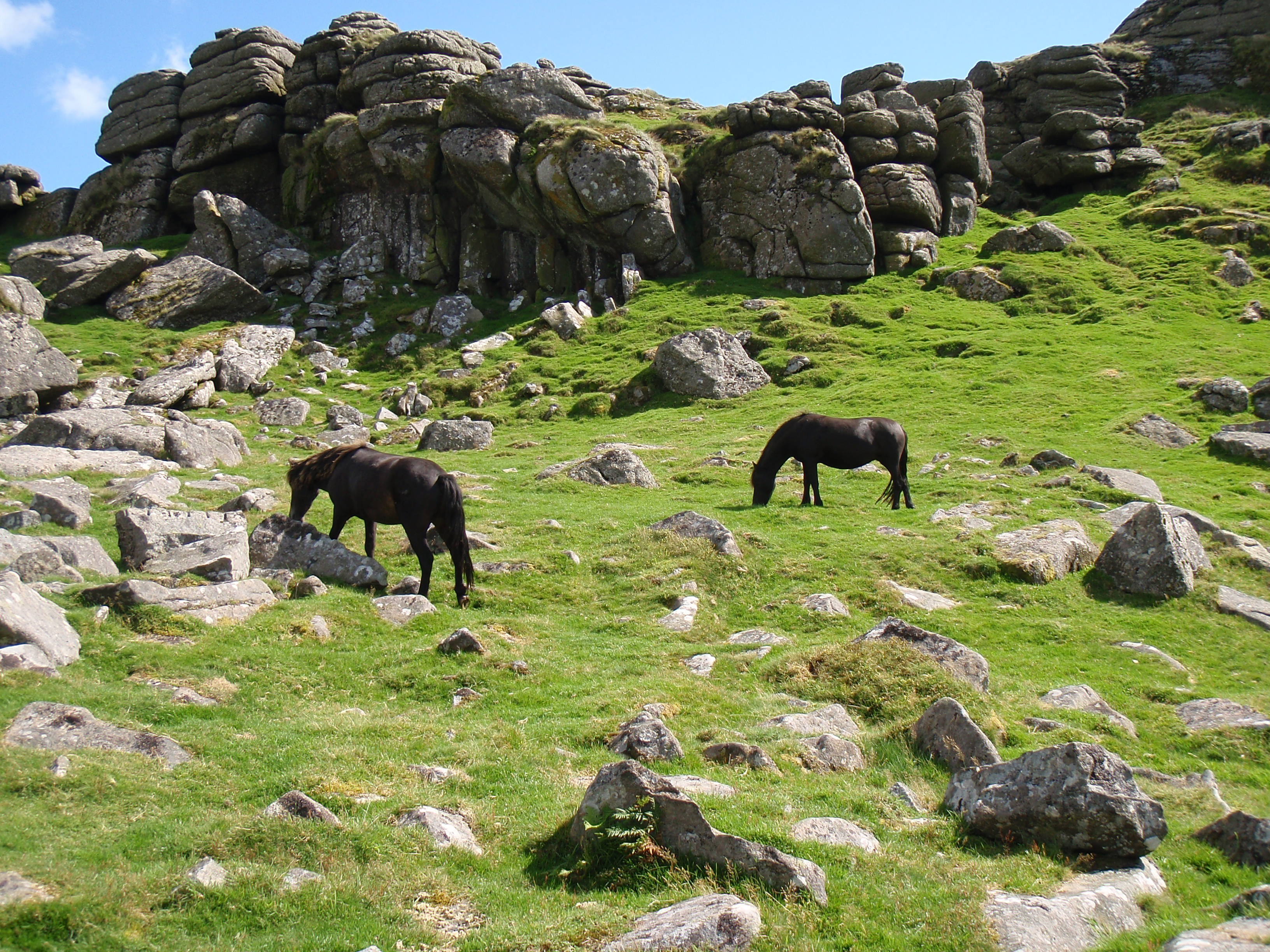 Free roaming ponies in Dartmoor, England